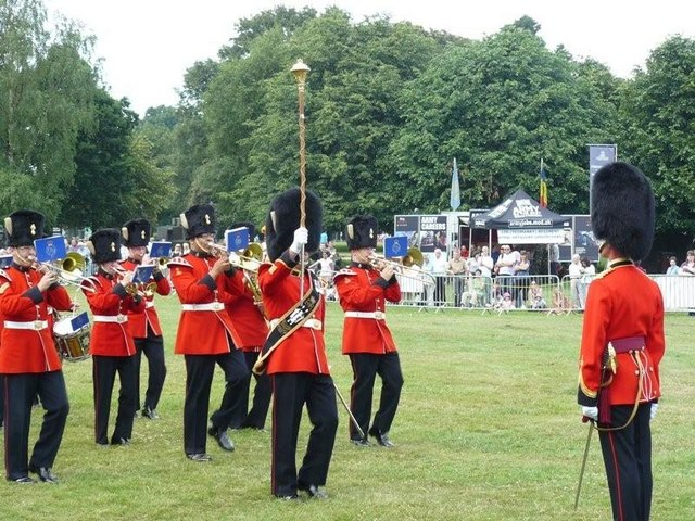 Wollaton Hall on Armed Forces Day The Minden Band